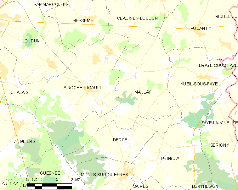 Map of French municipality Maulay